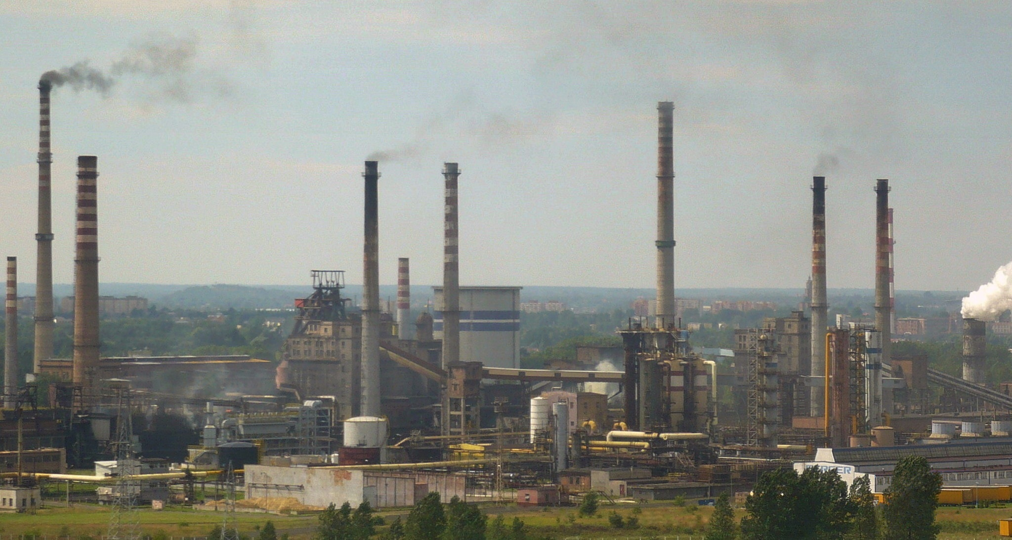 Steelworks "Częstochowa" - "Mirów" part (coke chemical plant and demolition of sinter plant and blast furnaces in 2008 year)